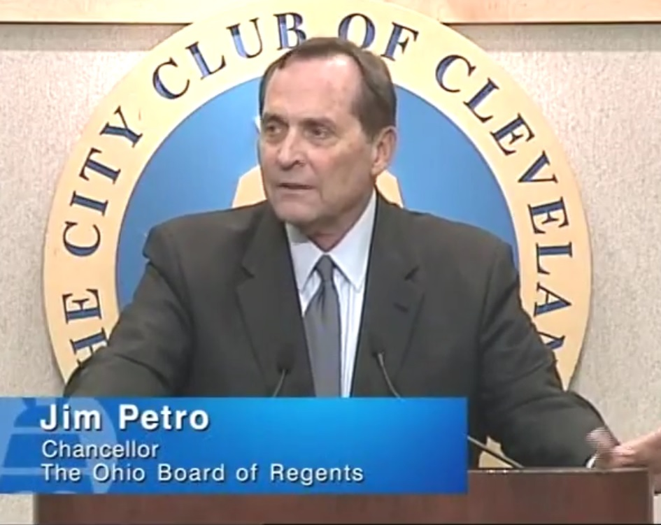 Screen capture of Jim Petro speaking to the City Club of Cleveland on January 11, 2013